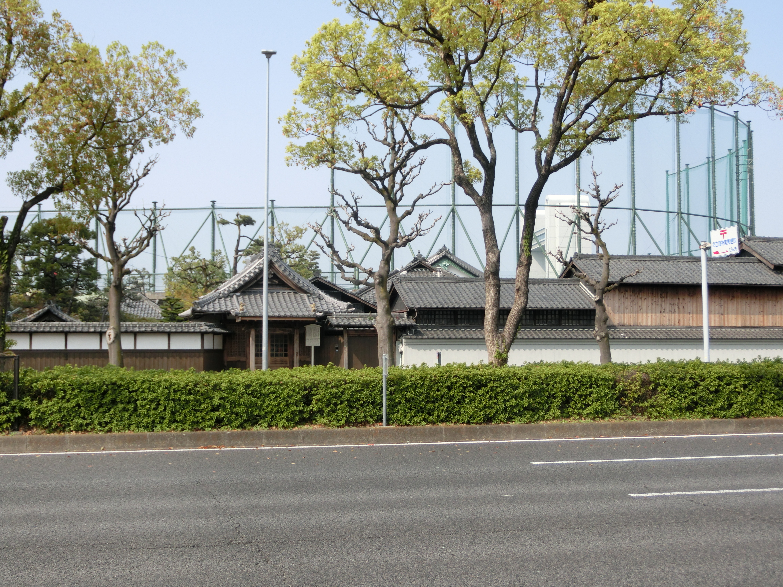 Seidaihi-ji